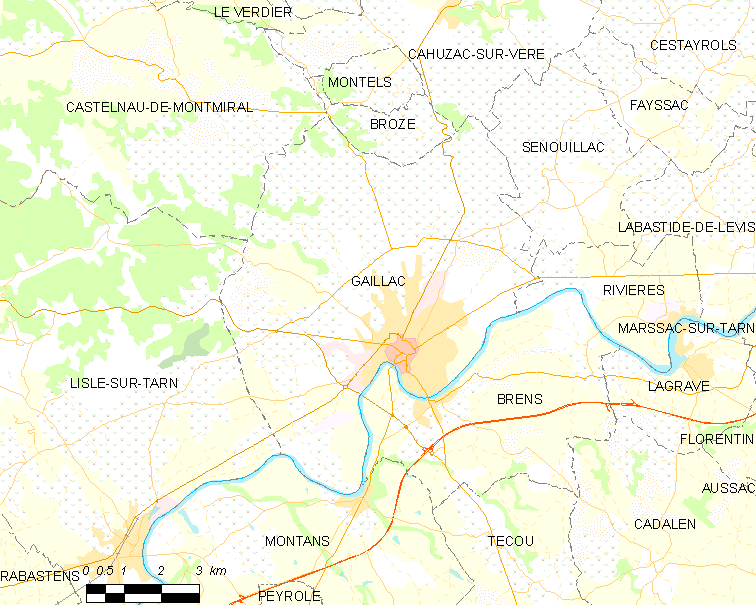 Map of French municipality Gaillac